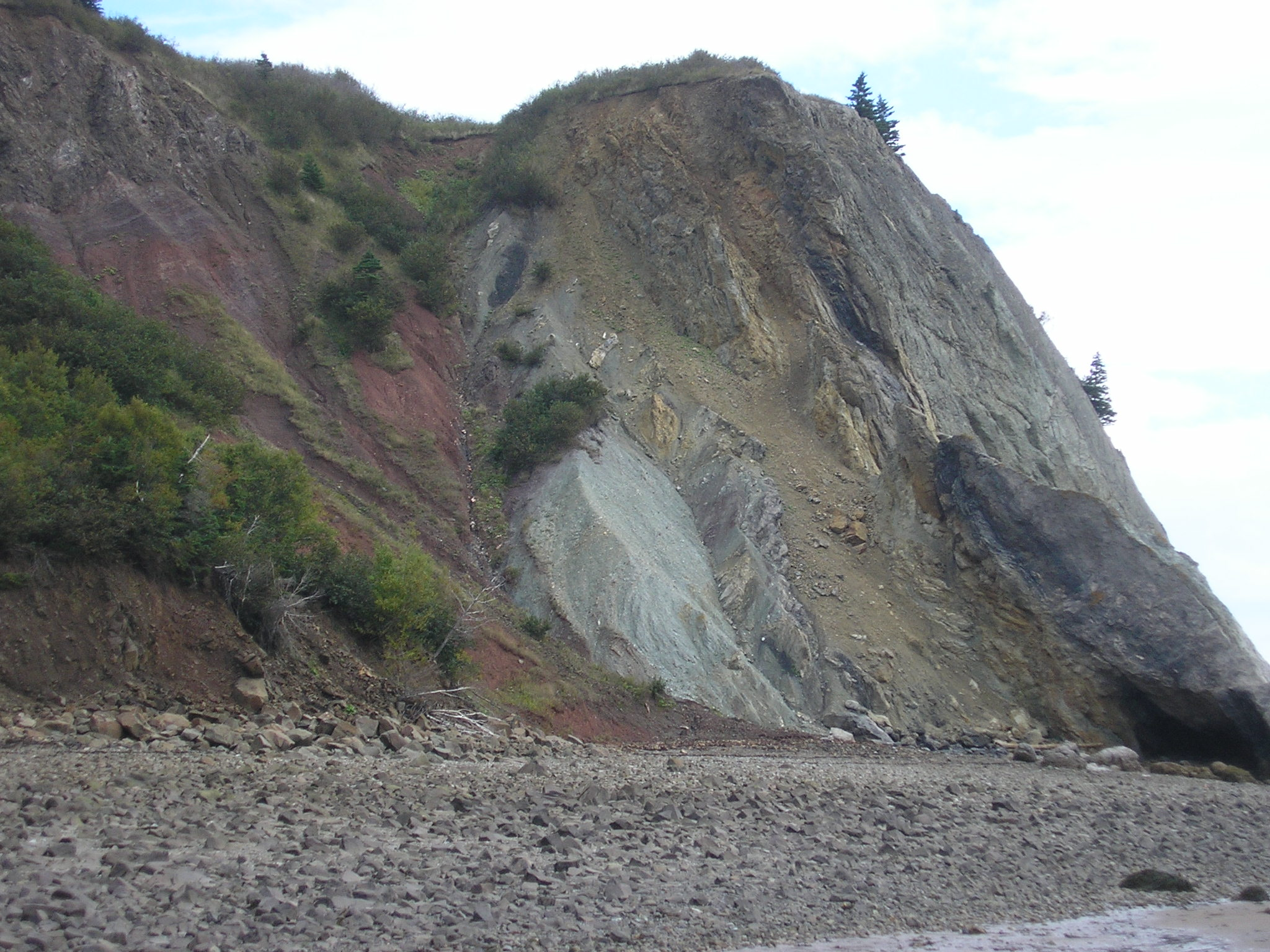 Part of the Cobequid Fault Zone see in cliffs just west of Clarke Head, near Parrsborough, Nova Scotia